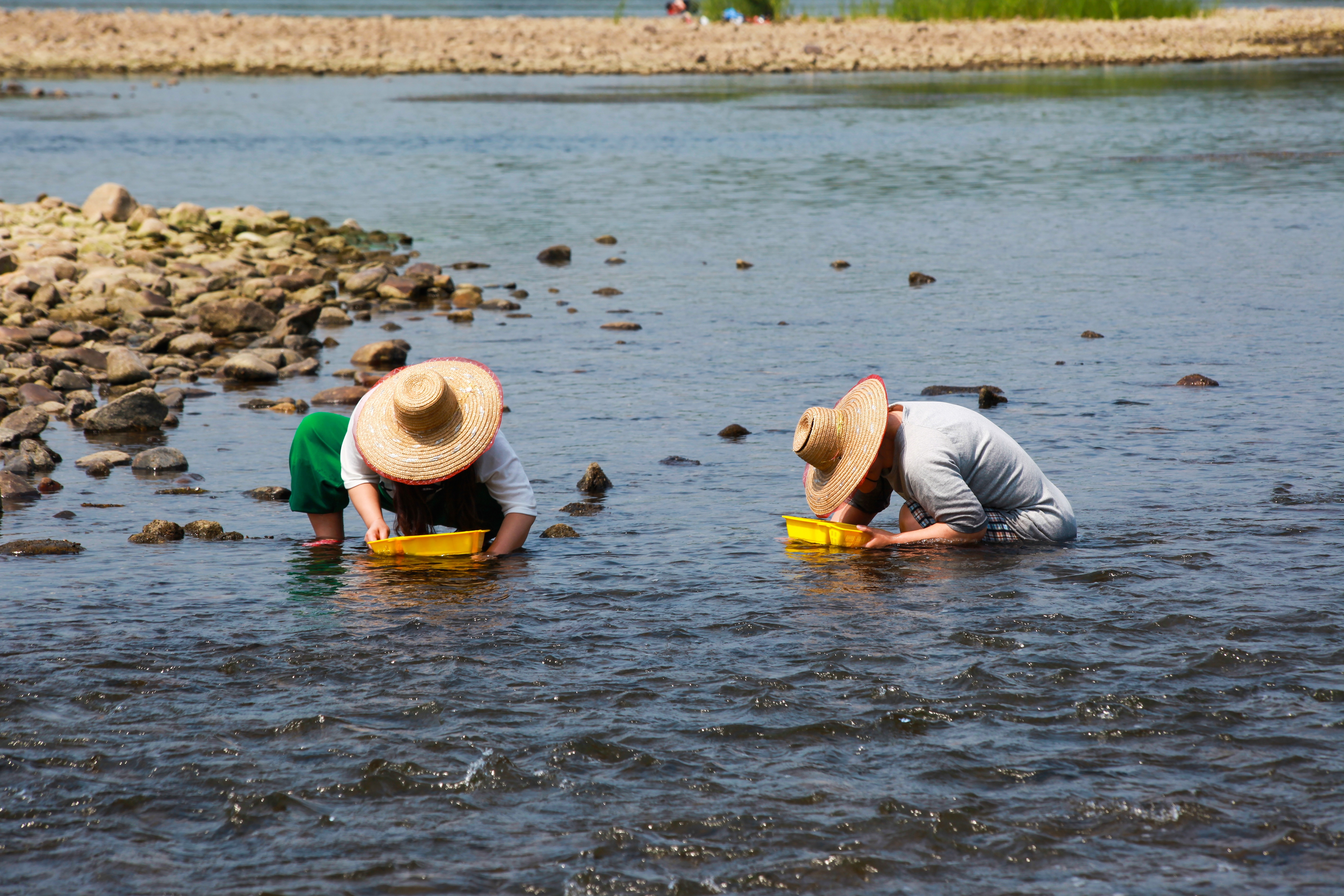 Gathering daseulgi (freshwater snails) at Chungju Lake, Namhan River, Korea